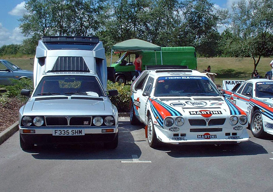 Lancia Delta S4 streetversion and rallycar (from Lancia Motor Club AGM 2005).